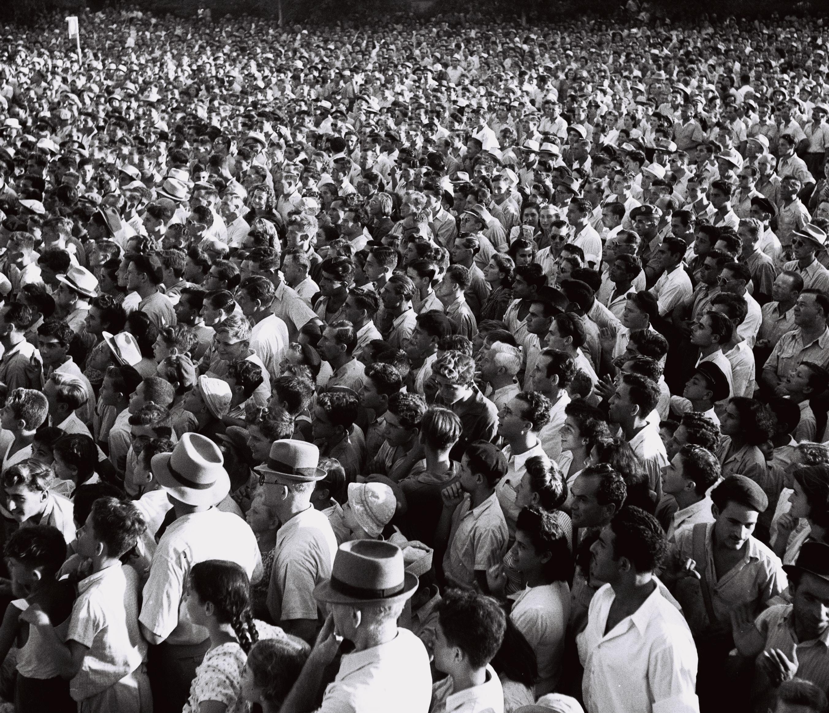 A PROTEST RALLY AGAINST THE DEPORTATION OF ILLEGAL IMMIGRANTS TO CYPRUS BY THE BRITISH AUTHORITIES, HELD OUTSIDE THE HABIMA THEATRE IN TEL AVIV. עצרת מחאה כנגד הגירוש של מהגרים לא חוקיים לקפריסין על ידי הבריטים, אל מול תיאטרון הבימה בתל אביב Photo: Zoltan Kluger (1896–1977) Alternative names Qlwger, Zwlṭan; Zolṭan Ḳluger; Kluger, Z.; W. von Szigethy; W. Von SzighethyDescriptionHungarian-Israeli photographerDate of birth/death 8 February 1896 16 May 1977Location of birth/death Kecskemét ManhattanAuthority control : Q7035699 VIAF: 19504001 ISNI: 0000 0000 6686 1613 ULAN: 500483392 LCCN: no2008144265 Open Library: OL6614008A WorldCat creator QS:P170,Q7035699 , 08/13/1946